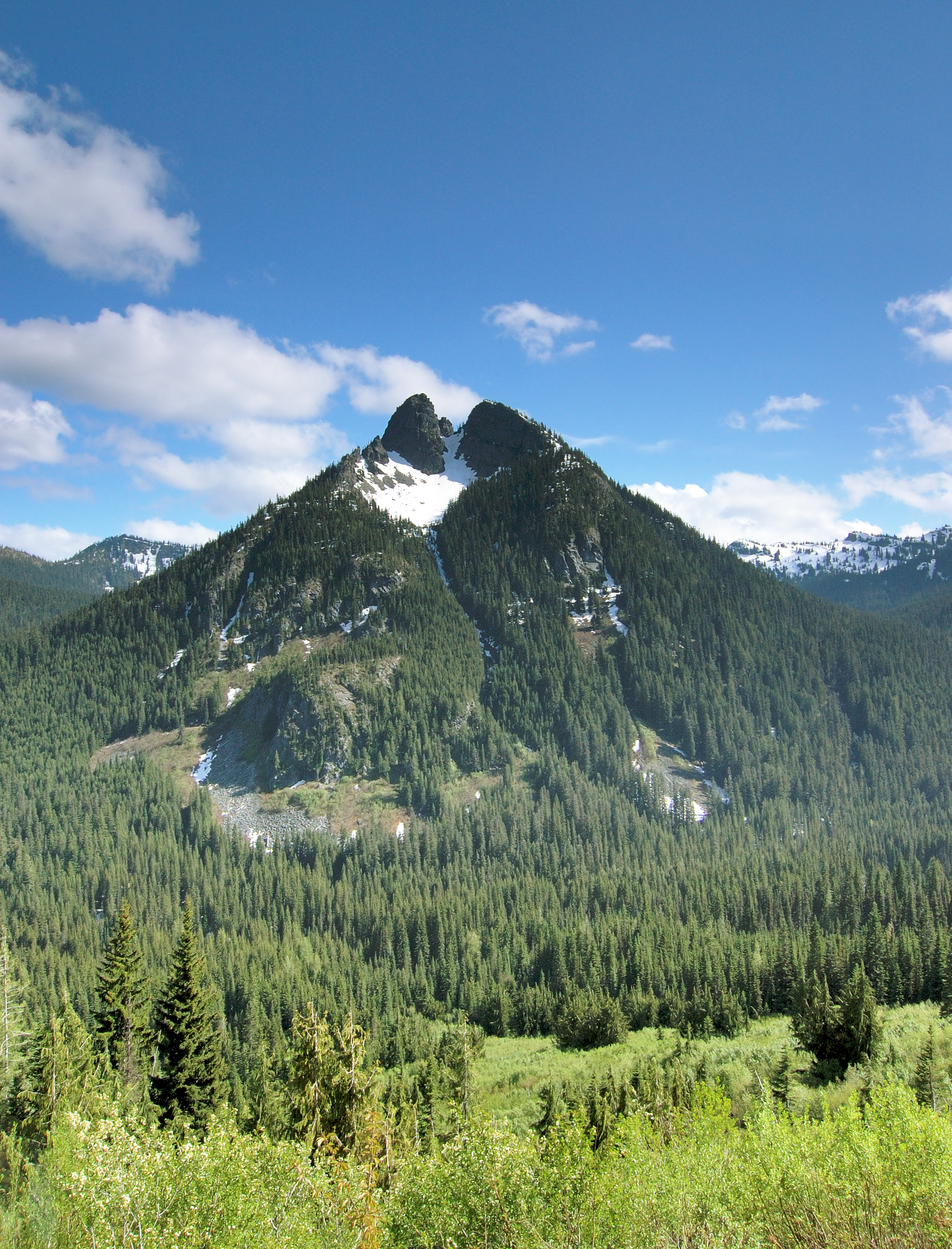 Point 6271' from Washington Route 410 east of Chinook Pass looking south; William O. Douglas Wilderness. [1]